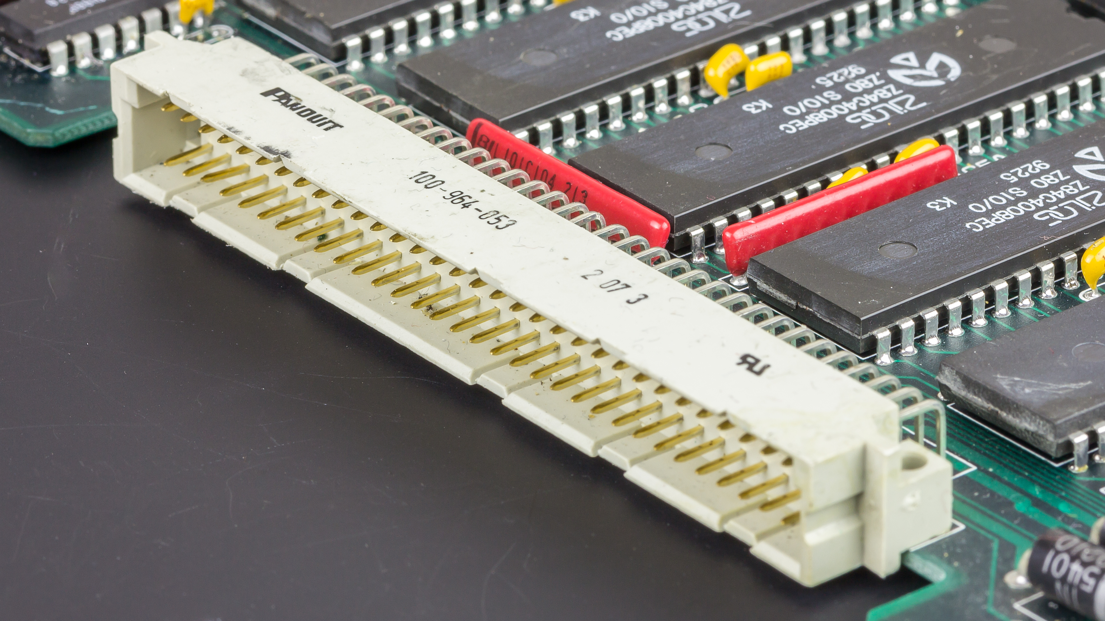 Basic Measuring Instruments - Math Processor 83002190 - Panduit pin header - 2 x 32 pins